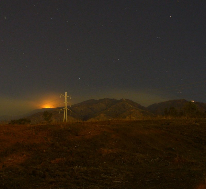 Sayre fire on evening of November 16, 2008 (fire is now on other side of the ridge from developed area). 60 second exposure.